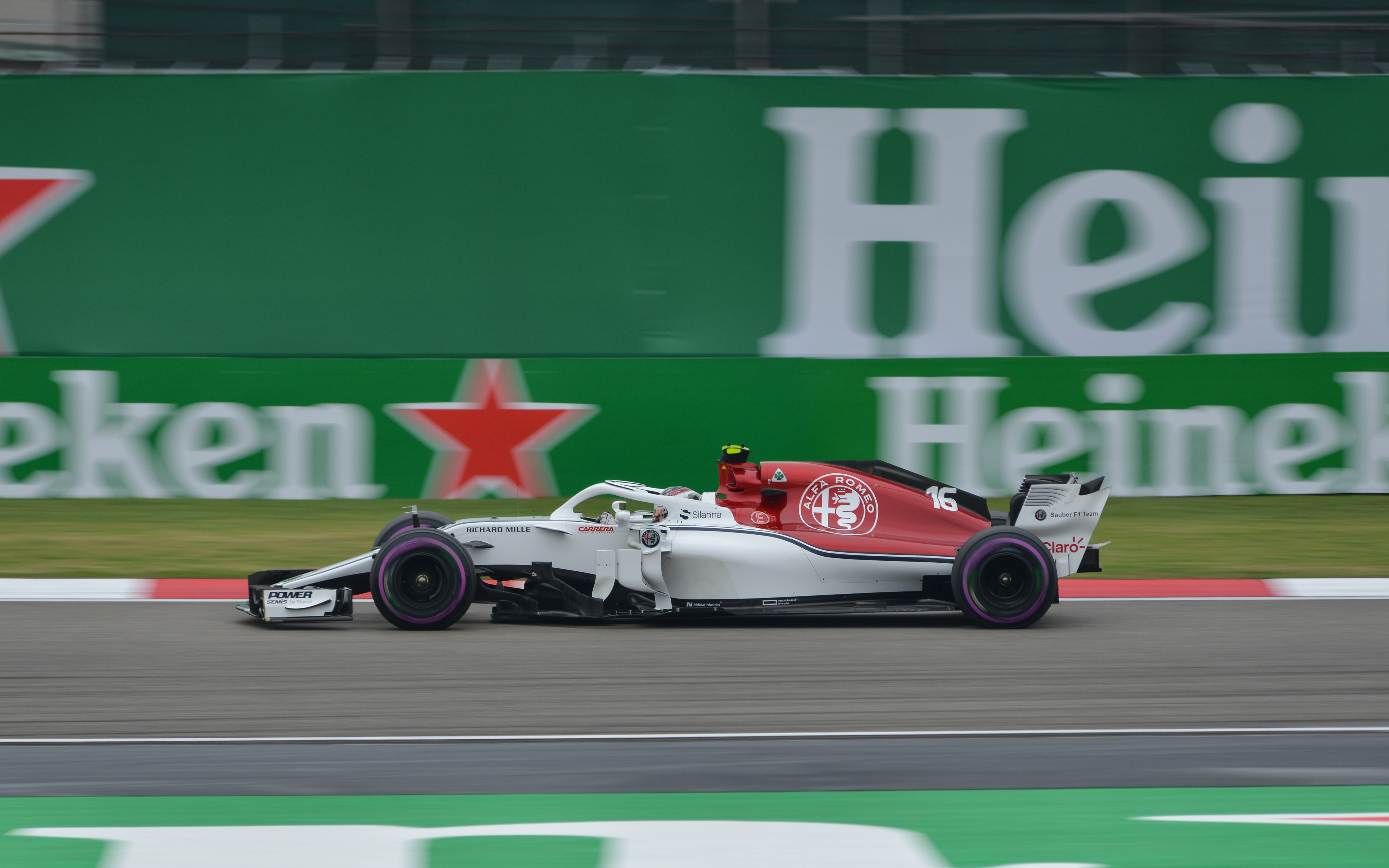 Monégasque racing driver Charles Leclerc on Sauber-Ferrari C37 of Alfa Romeo Sauber F1 Team, during the free practice of the 2018 Heineken Chinese Grand Prix at the Shanghai International Circuit.